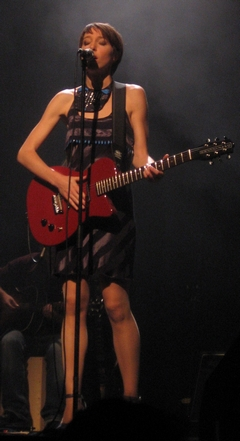 Jeanne Cherhal in concert